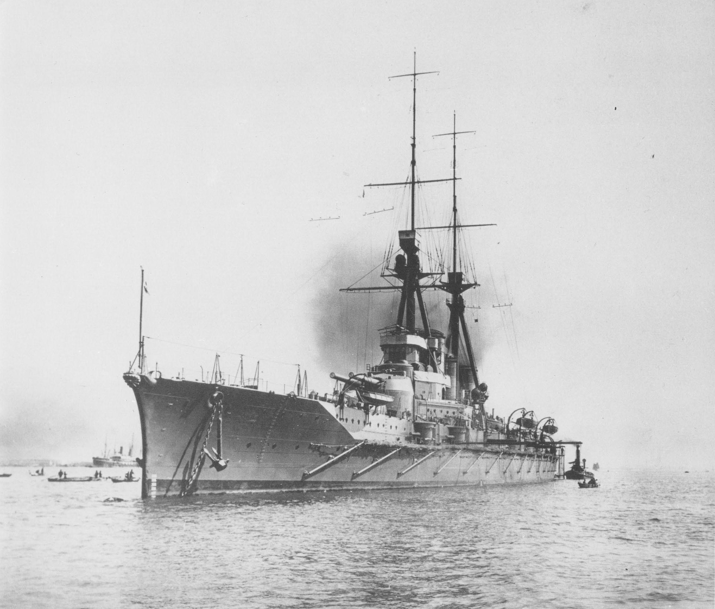 Imperial Japanese Navy battlecruiser Haruna at Kobe, Japan one week after commissioning.